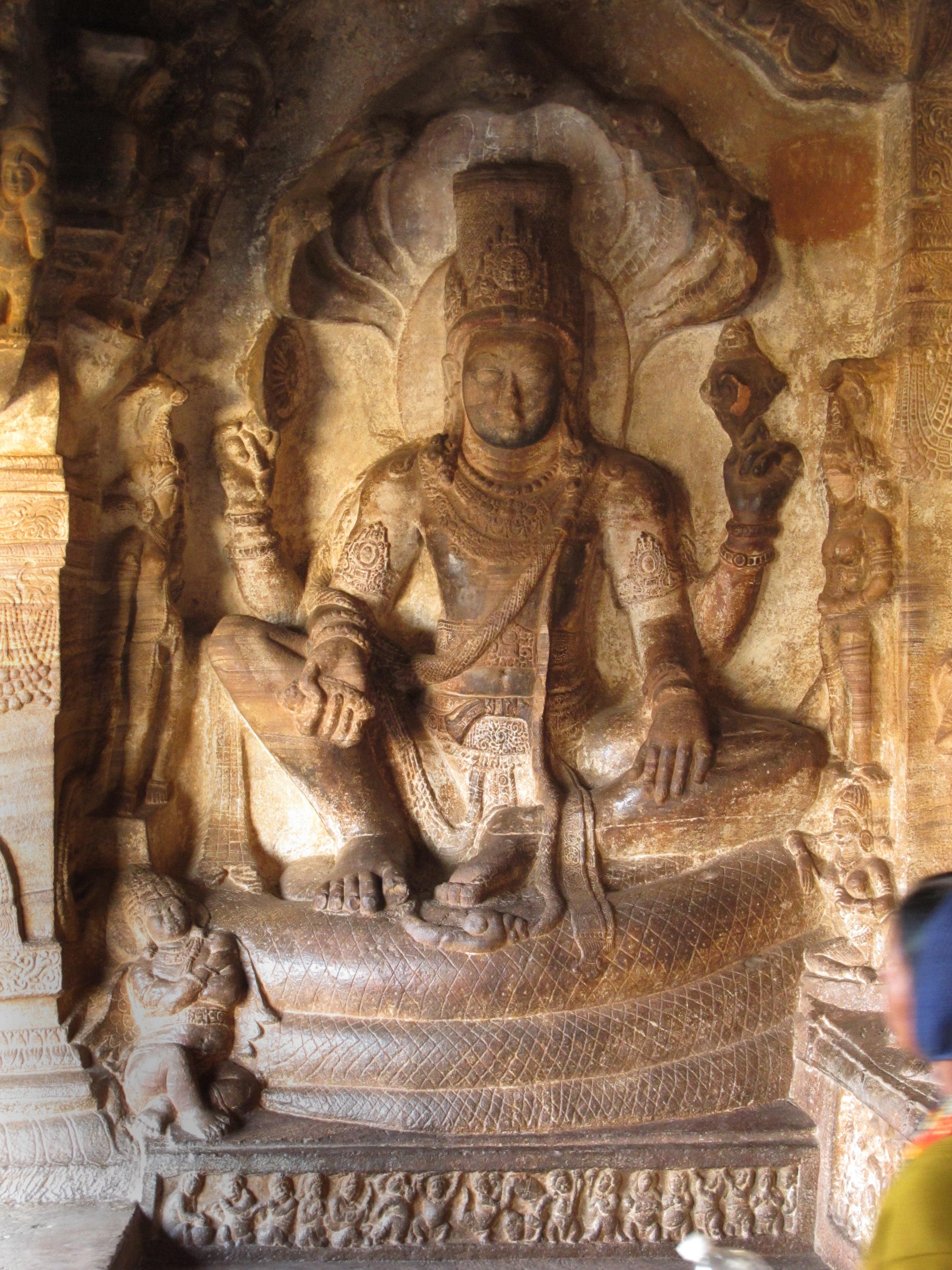 Vishnu seated on Ananta. Cave 3, Badami, Karnataka